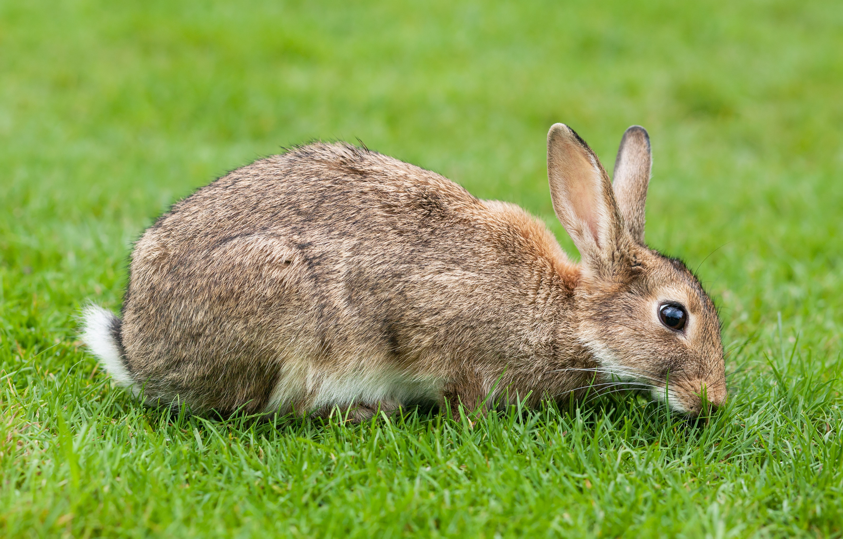 A European Rabbit eating grass in Great Langdale, Cumbria, England.